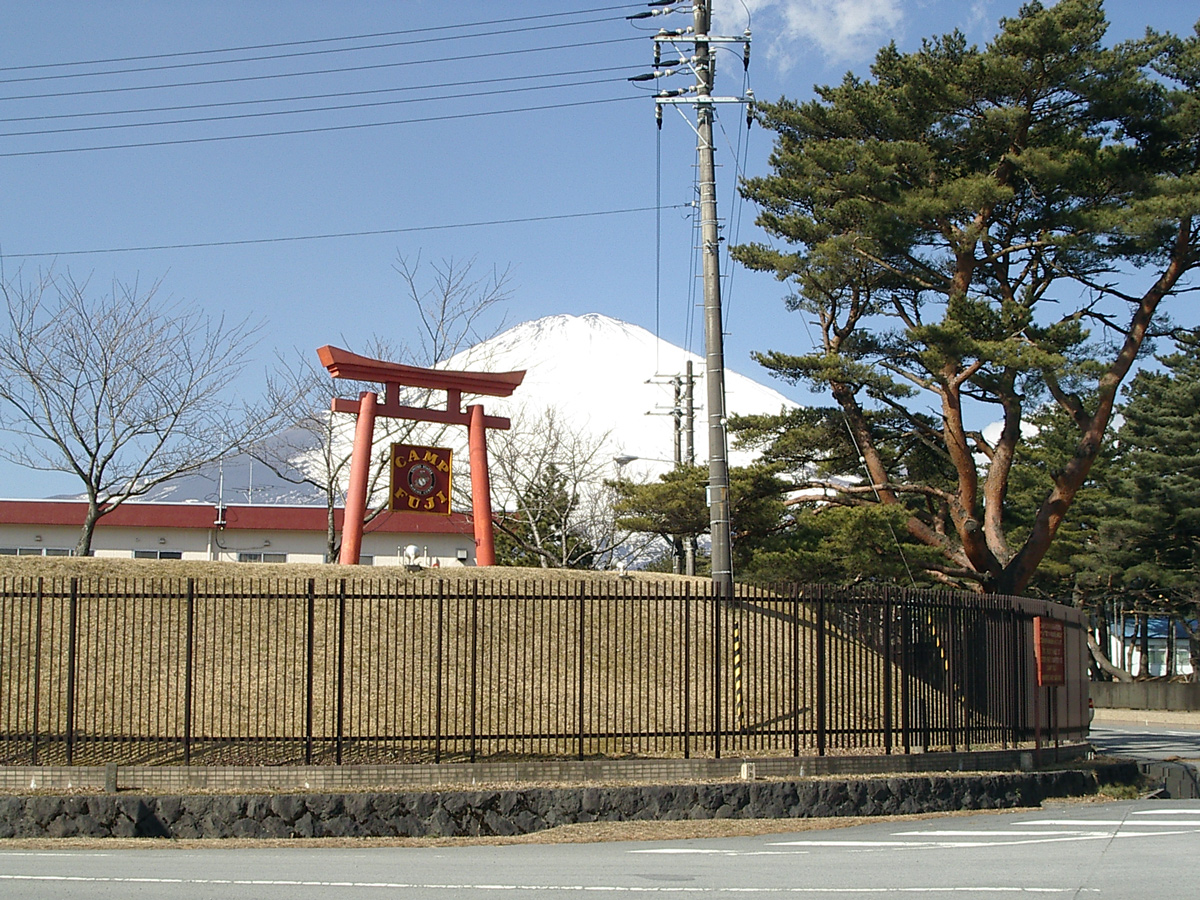 Camp Fuji, a base of United States Marine Corps in Japan. The picture was taken by myself.